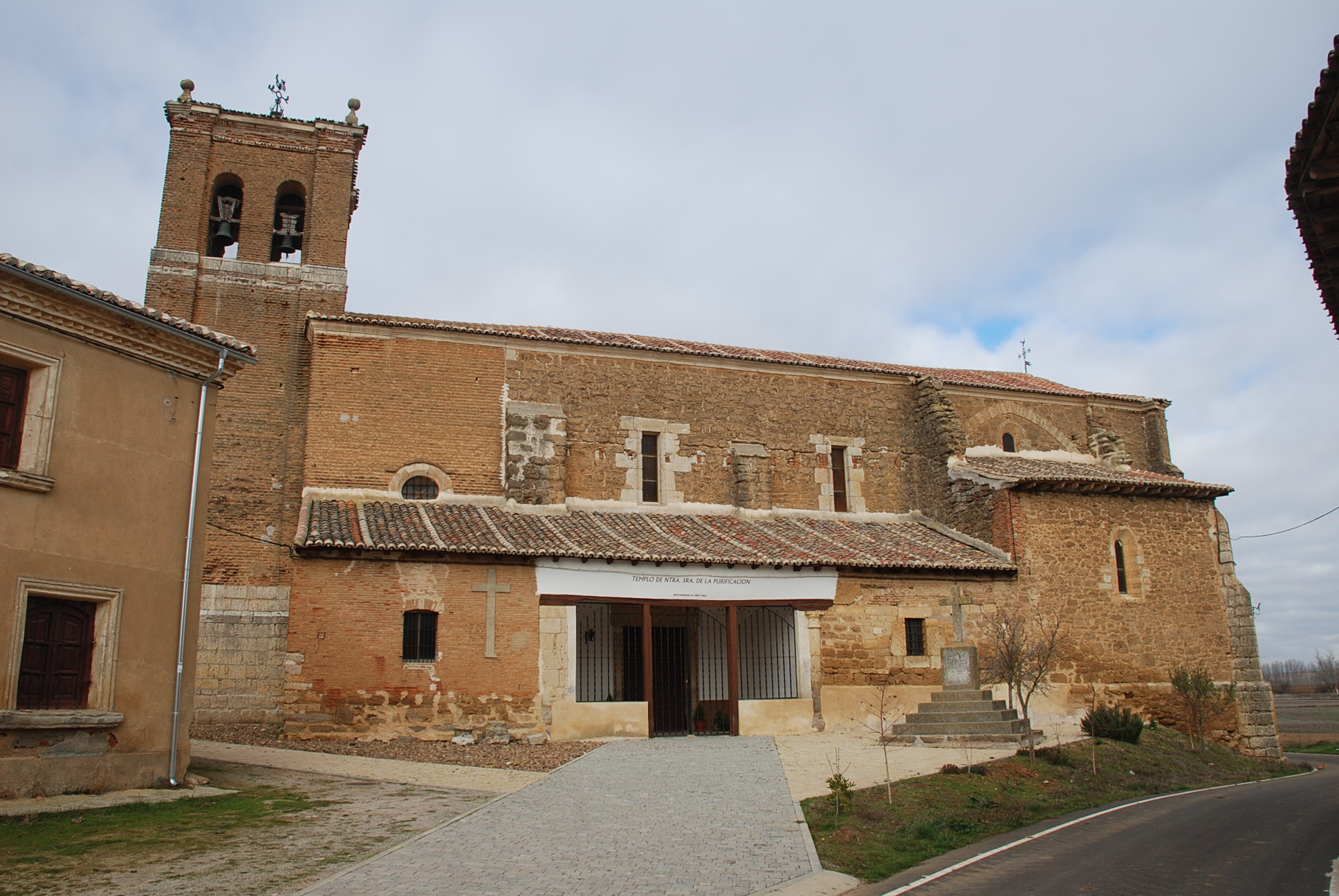 Church of Our Lady of the Rosary in Las Cabañas de Castilla (Palencia, Castile and León)